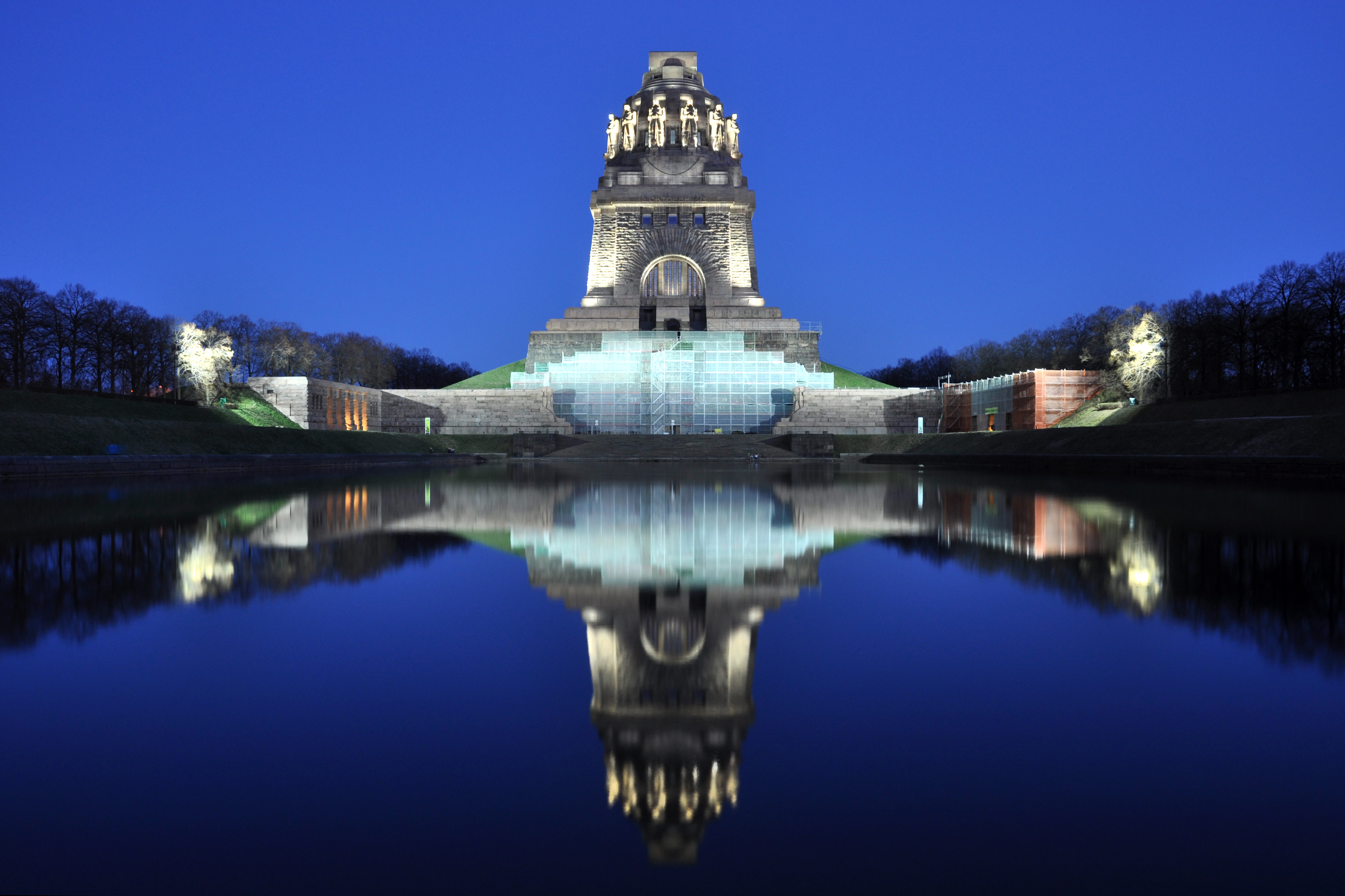 the Monument to the Battle of the Nations in Leipzig during the Blue hour